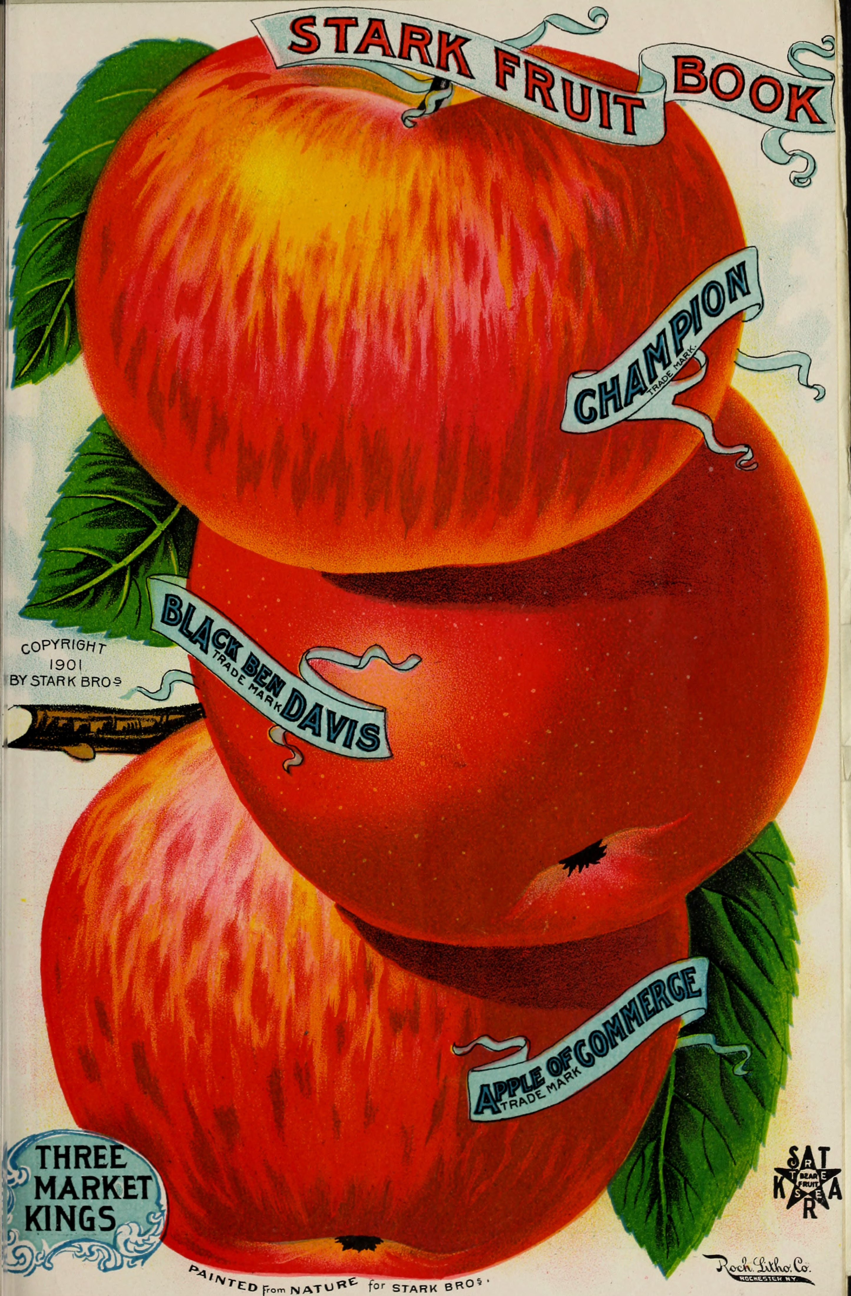 Title: Stark fruit book Year: 1901 (1900s) Authors: Stark Bro's Nurseries & Orchards Co; Henry G. Gilbert Nursery and Seed Trade Catalog Collection Subjects: Nursery stock Missouri Louisiana Catalogs; Fruit trees Catalogs; Fruit Catalogs; Flowering shrubs Catalogs Publisher: (Louisiana, Mo. : Stark Bro's. ) Text Appearing Before Image: ' Text Appearing After Image: '